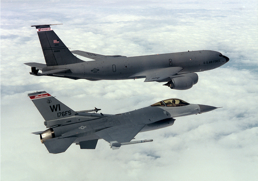 A KC135R from the 128th Air Refueling Wing and an F16 fighter from the 115th Fighter Wing, Wisconsin Air National Guard fly in formation.